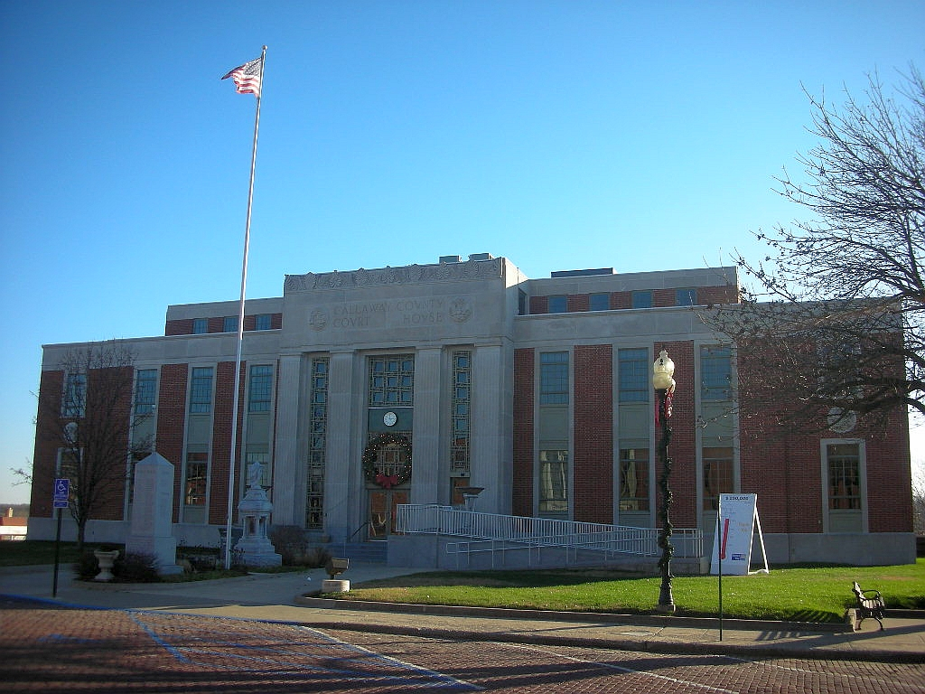 Callaway County Missouri Courthouse